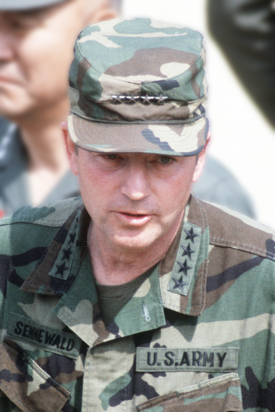 General Robert W. Sennewald, commander in chief, Combined Forces Korea and United Nations Command, inspects a display of US and Korean military equipment during his visit to Nightmare Range Scope & Content The original finding aid described this photograph as: Country: Republic Of Korea (KOR) Scene Camera Operator: SSGT Lee Schading Release Status: Released to Public